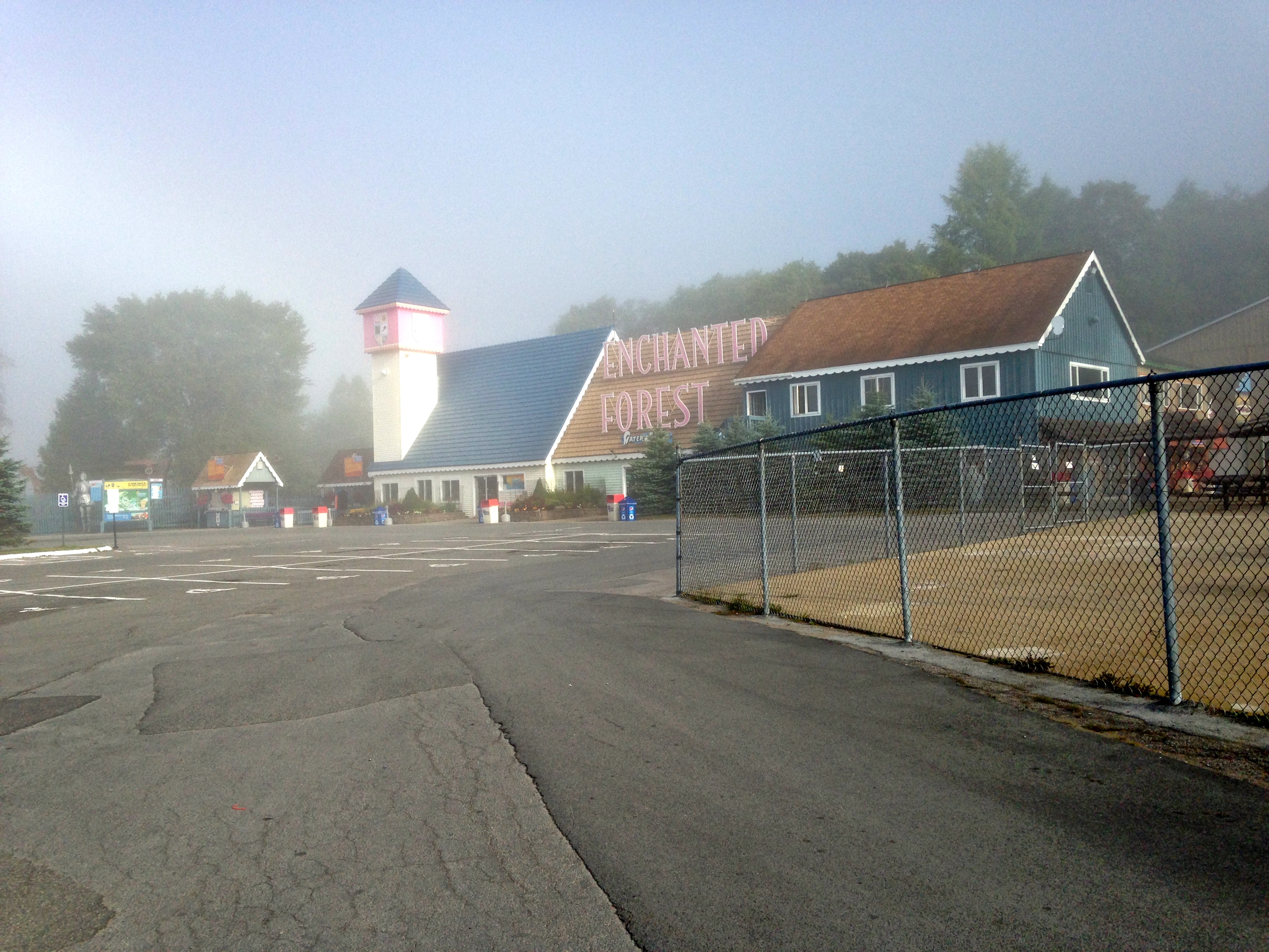 The gate to Enchanted Forest Water Safari on a foggy morning.